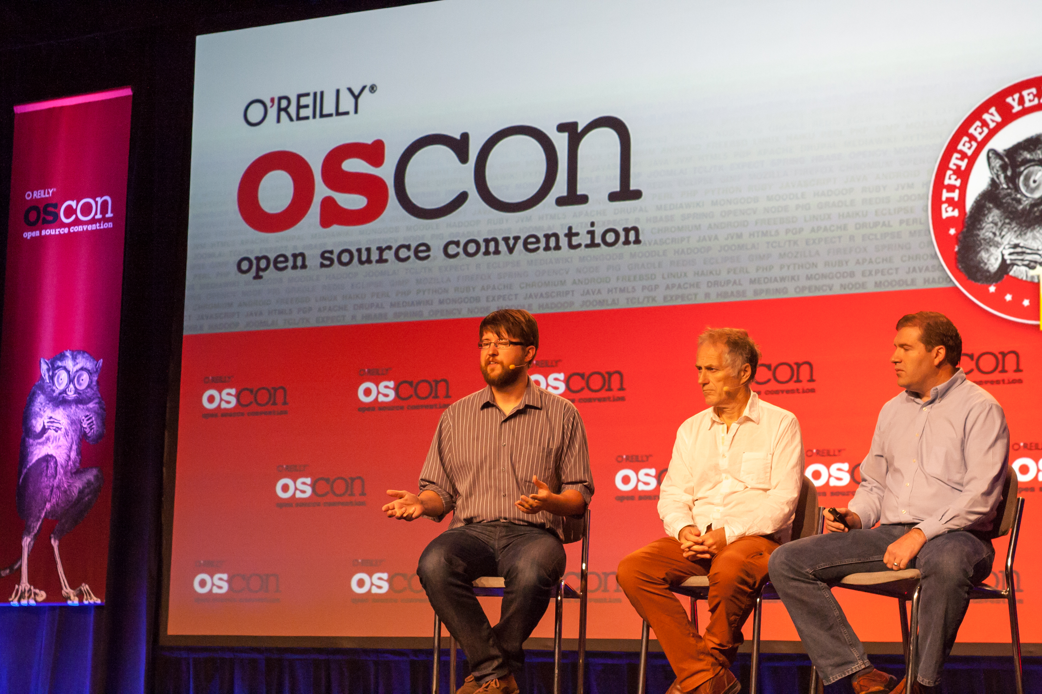 A discussion of Code for America at an OSCON Keynote.